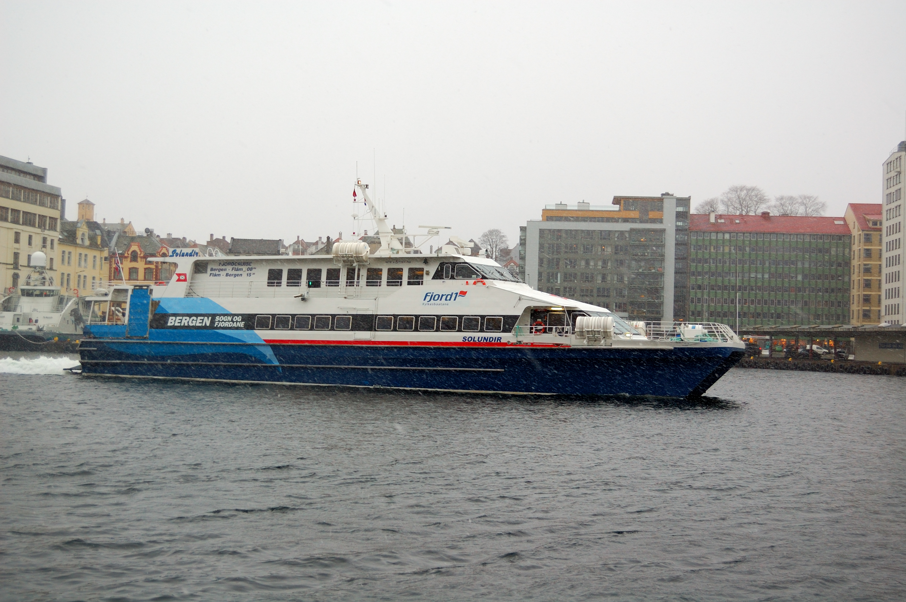 The Fjord1 ferry Solundir in Bergen, Norway.